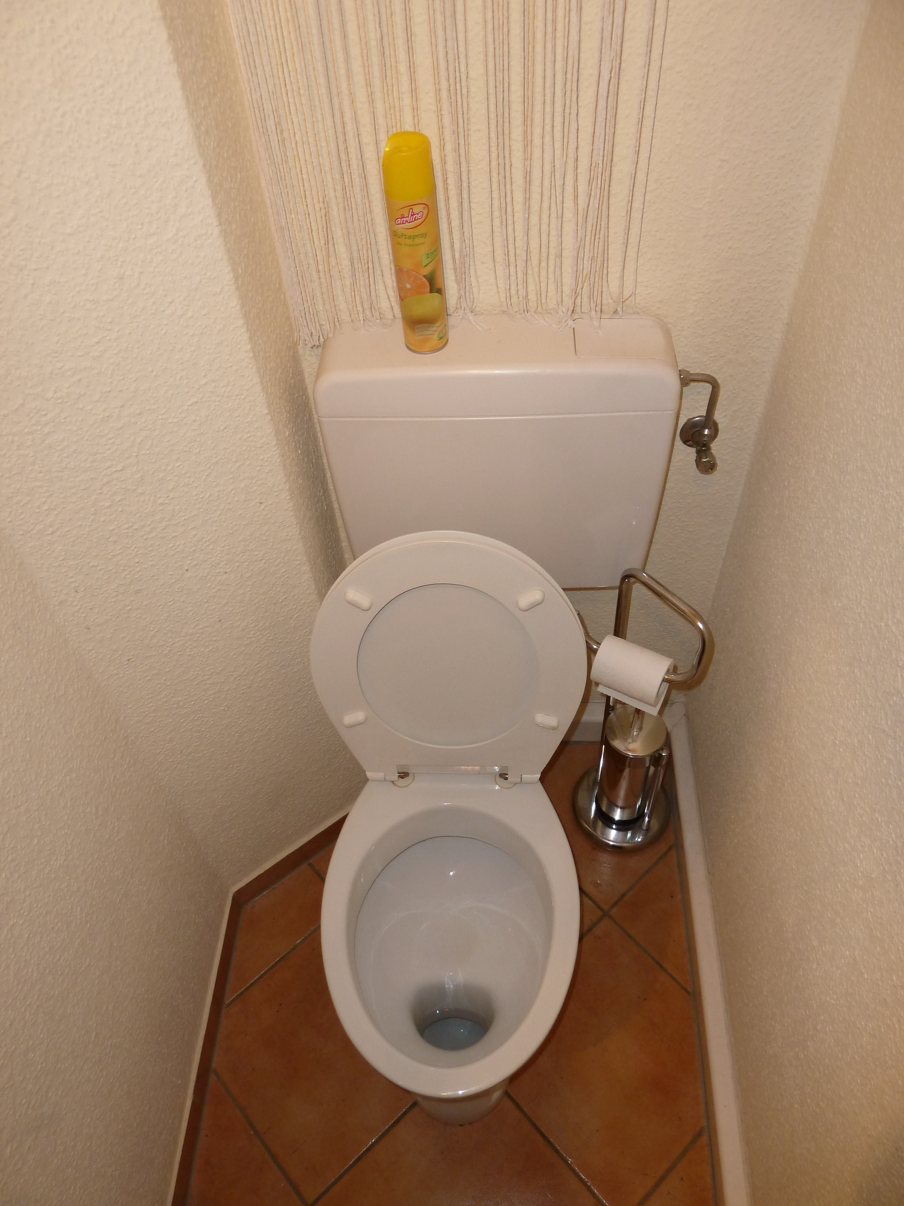 A German style reverse flush toilet which holds the excrement out of the water. This could be to make inspection easier, to reduce splashing, or just tradition. It greatly increases associated odor and requires a brushing after every use.